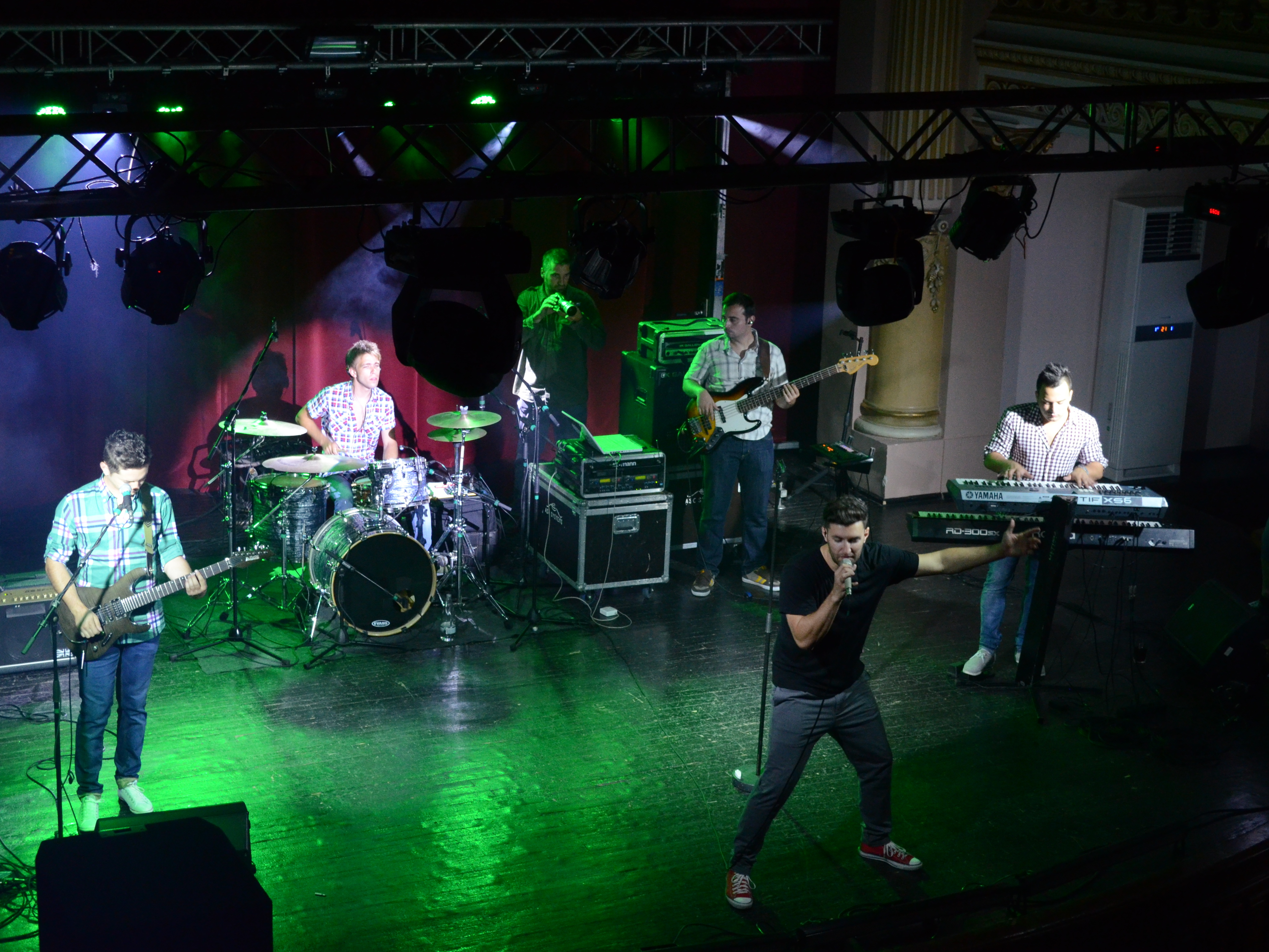 Smiley in concert at a private party, at Bragadiru Palace